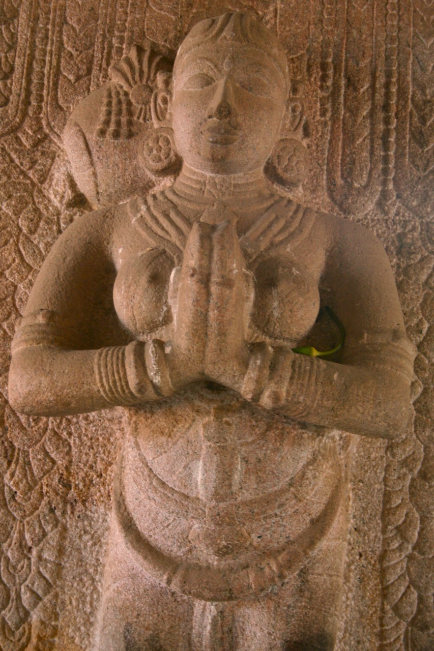 Sri Ranganathaswamy temple, Trichy, TN. Built ~1400 years ago but enhanced constantly ever since, including by the Vijayanagara Empire, c. 1500 AD.